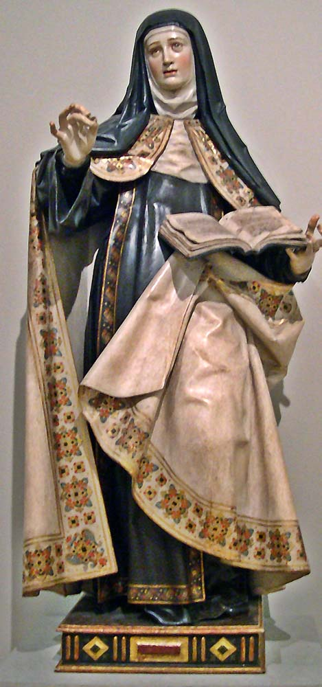 Saint Theresa of Ávila, sculpture in polychromed wood, actually exposed in the Museum Nacional de Escultura, in Valladolid (Spain)